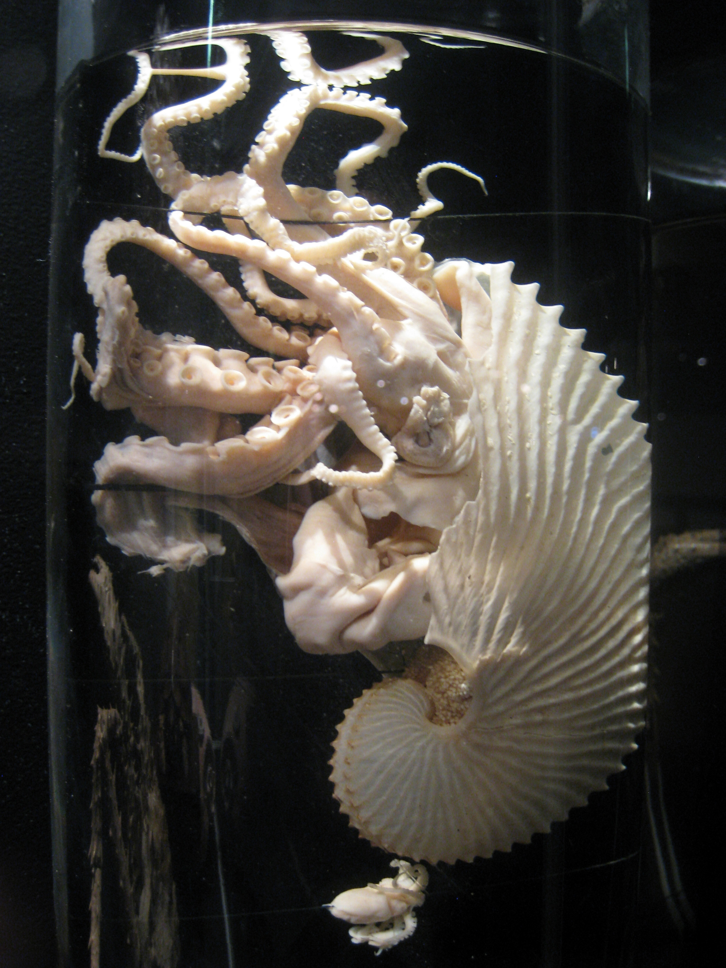 Argonauta argo specimen in the Zoological Museum (Naturhistorisk Museum), Oslo, Norway.